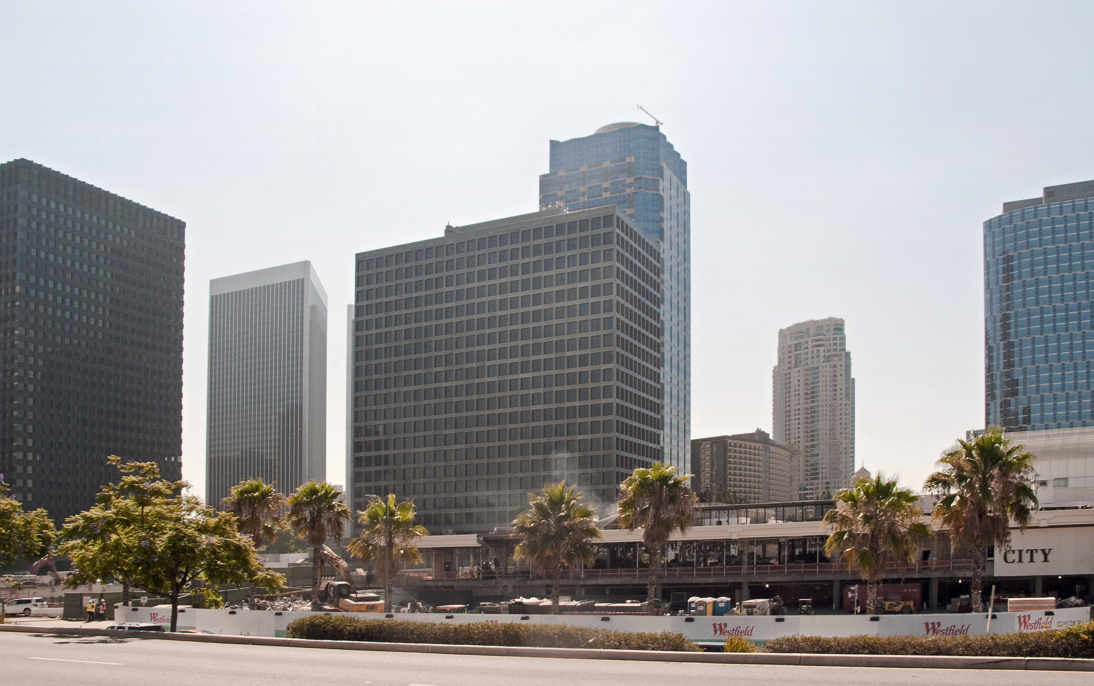 Demolition of the restaurant facing Santa Monica Boulevard, in the Westfield Century City shopping mall, Los Angeles, California. High-rise buildings of Century City are in the background.